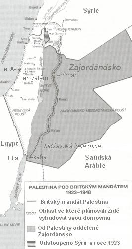 Map of the British Mandate of Palestine and Transjordan (possibly with errors, see description page on wikipedia).